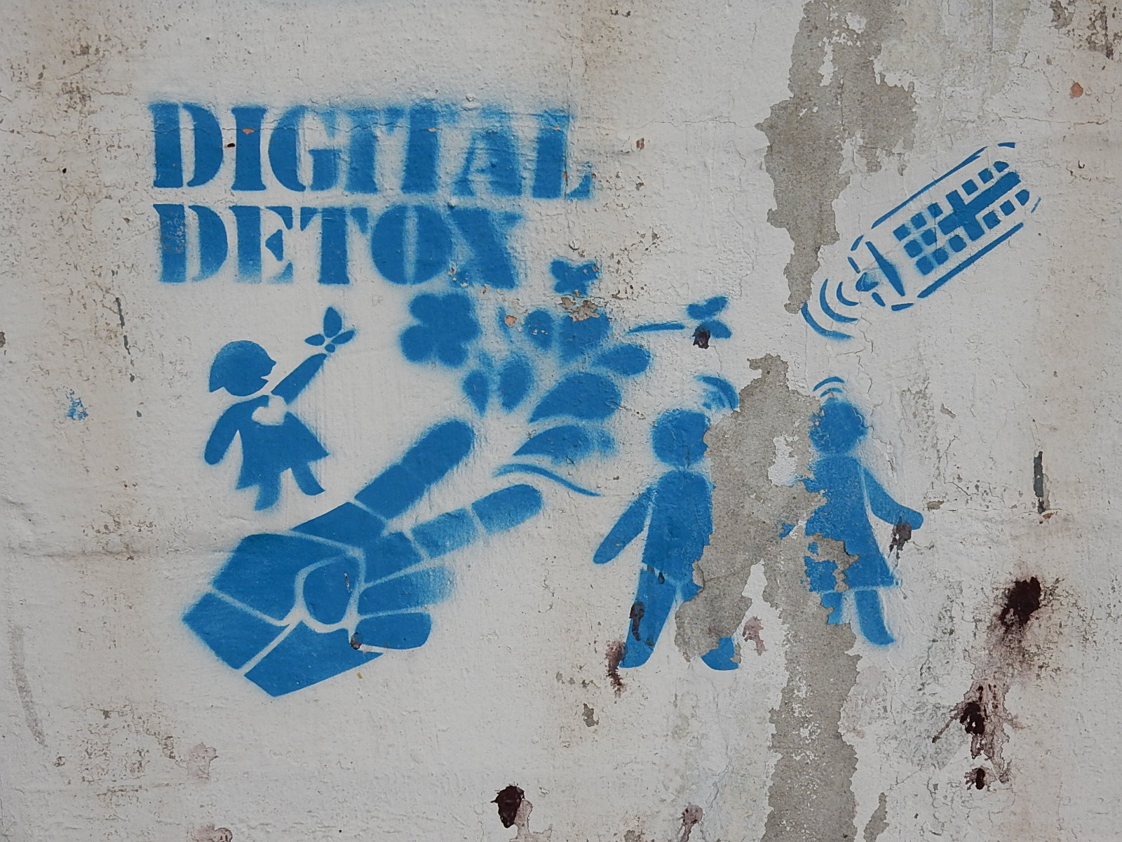 Another Plug for the Digital Detox Campaign